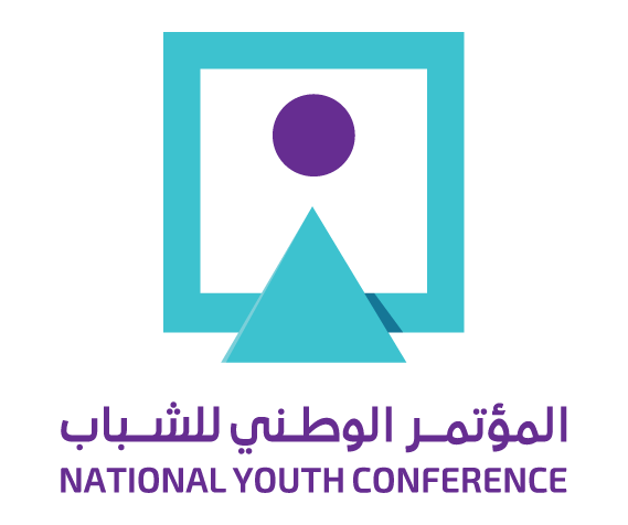 logo of The Egyptian National youth Conference